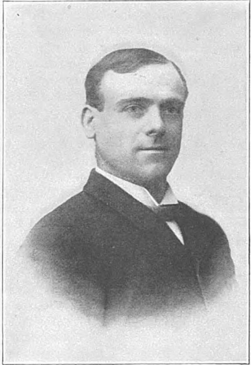 Photograph of English stage manager, playwright, and actor, William Lestocq. Appeared in The Sketch on November 3, 1897, p. 82